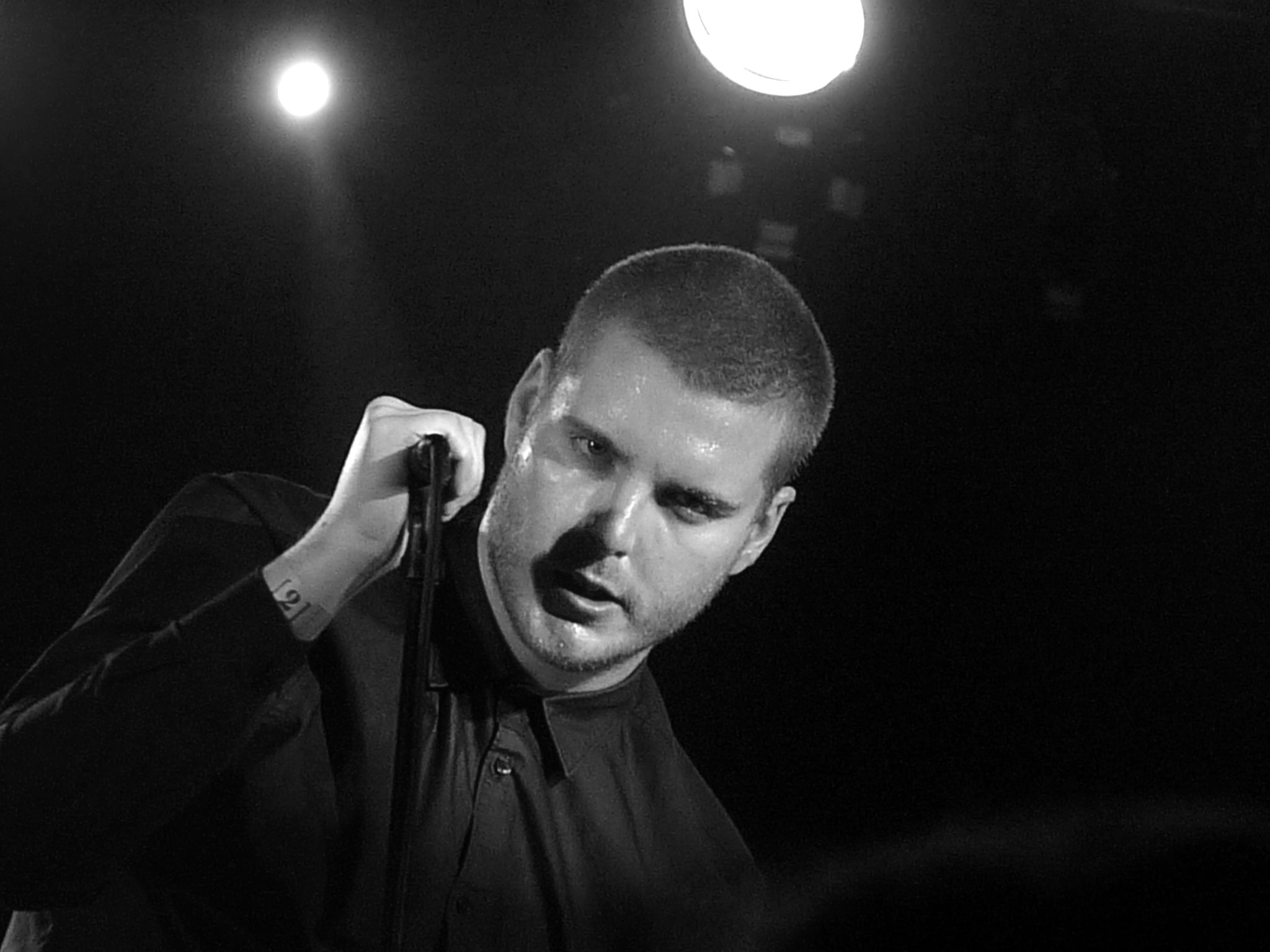 George Clarke of Deafheaven performing live in Barcelona, Spain.